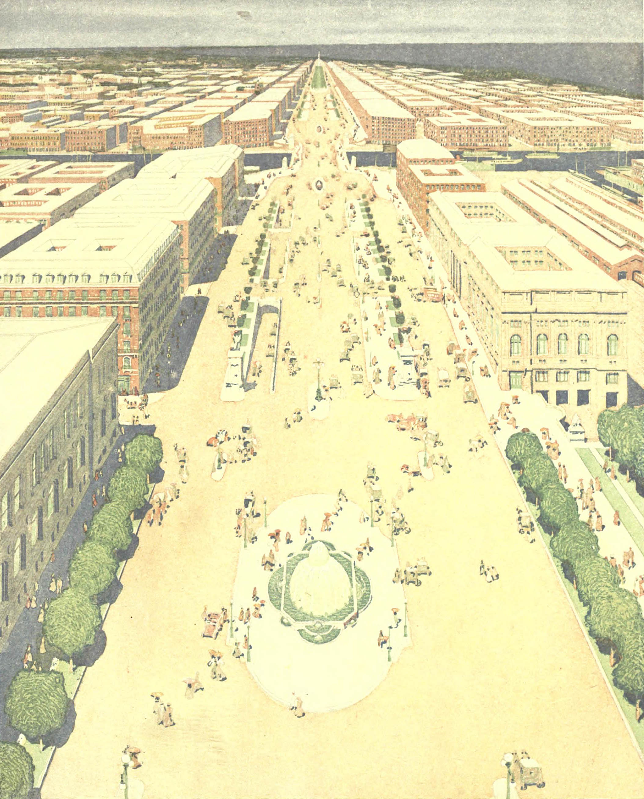 Illustration from Burnham & Bennett's 1909 Plan of Chicago. The original caption is "Proposed boulevard to connect the north and south sides of the river. View looking north from Washington Street."